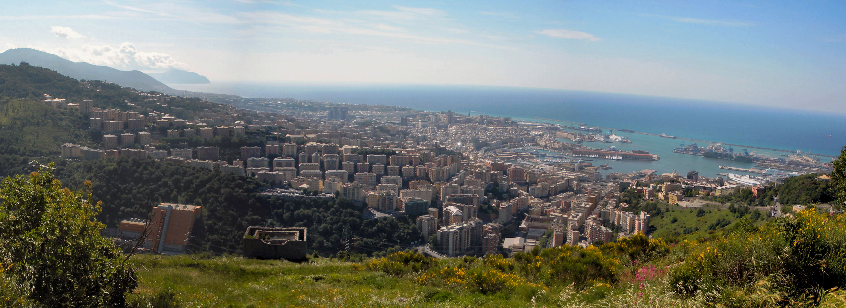 Panorama of Genoa from Granarolo